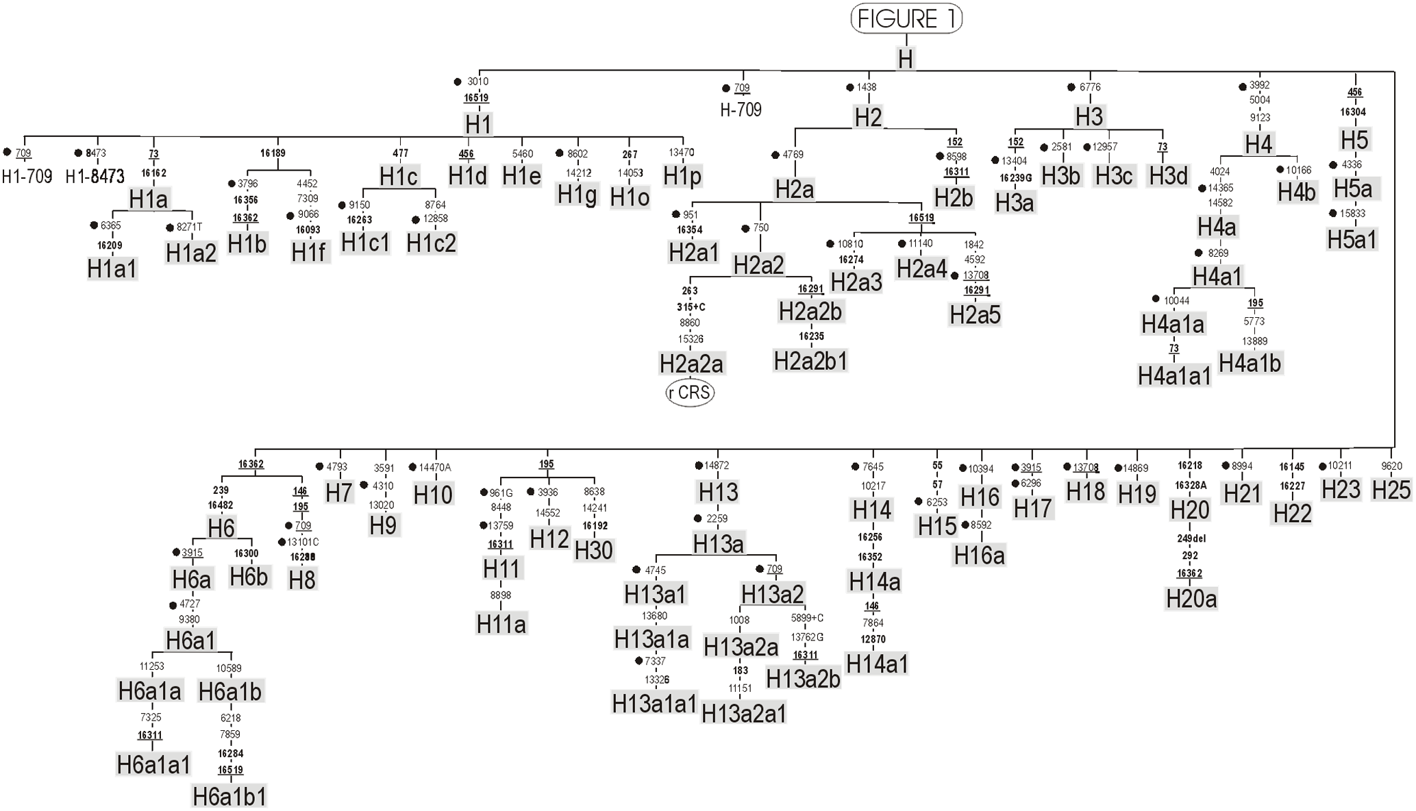 Phylogeny of haplogroup H.